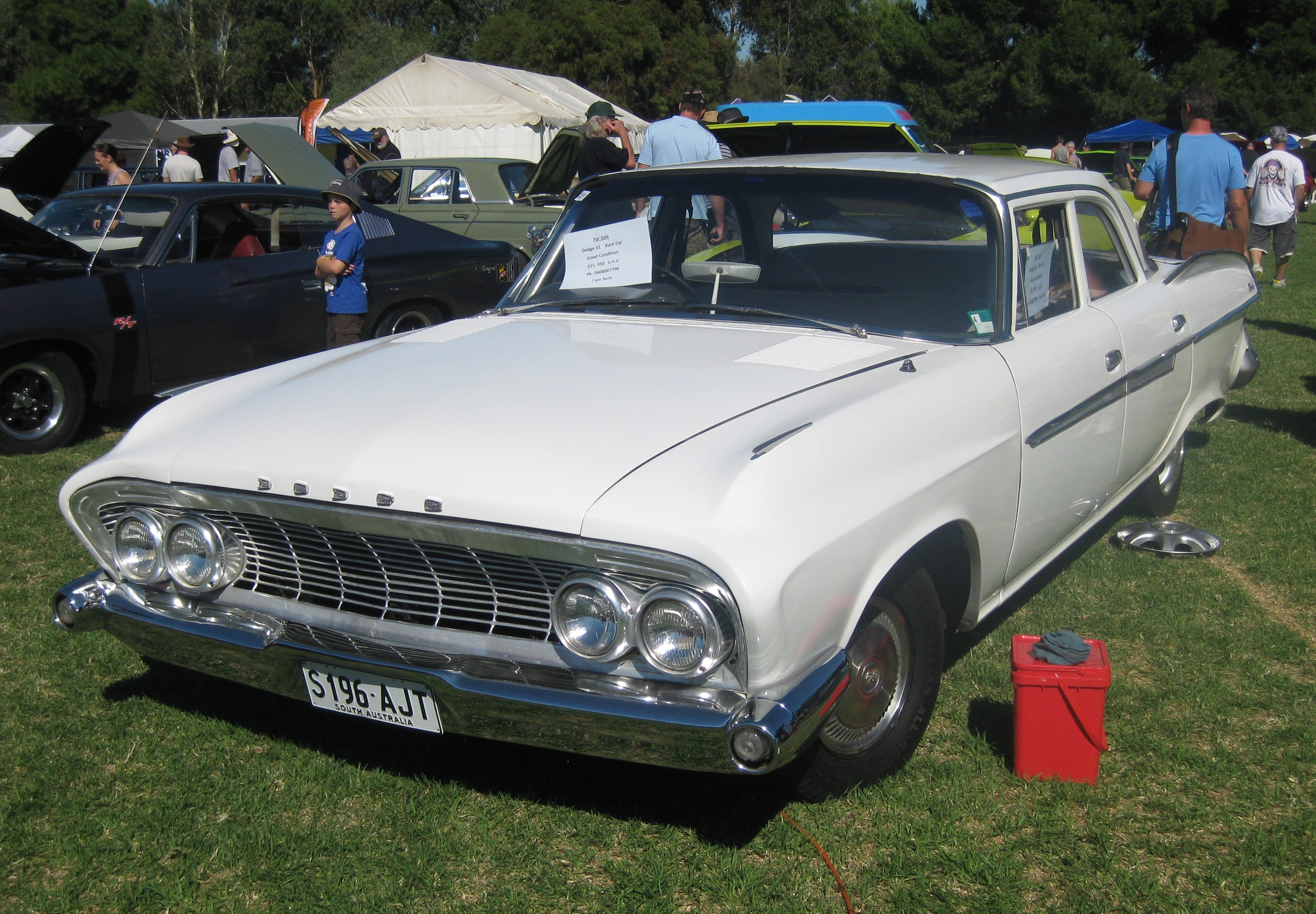 1961 Dodge Phoenix as produced by Chrysler Australia